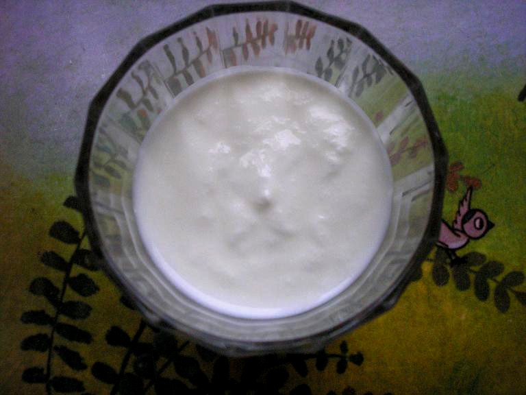 Sour milk